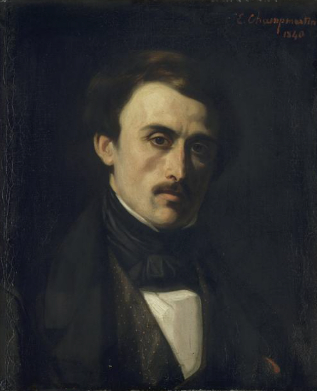 Paul-Émile Botta by Charles-Émile-Callande de Champmartin, Paris, musée du Louvre.